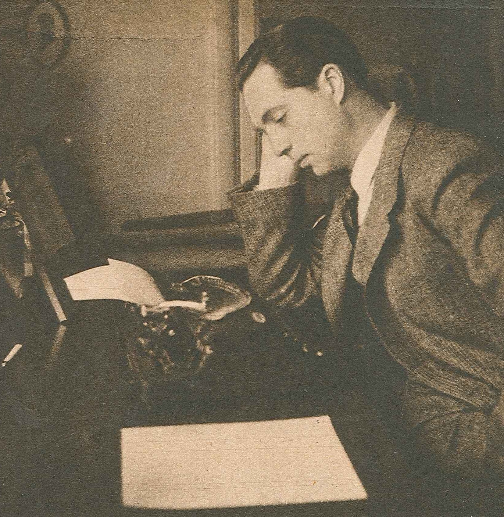 Karl Ragnar Gierow (1904-1982), Swedish author, translator, literary critic, theatrical director and head of the Royal Dramatic Theatre; member of the Swedish Academy 1961-1982.